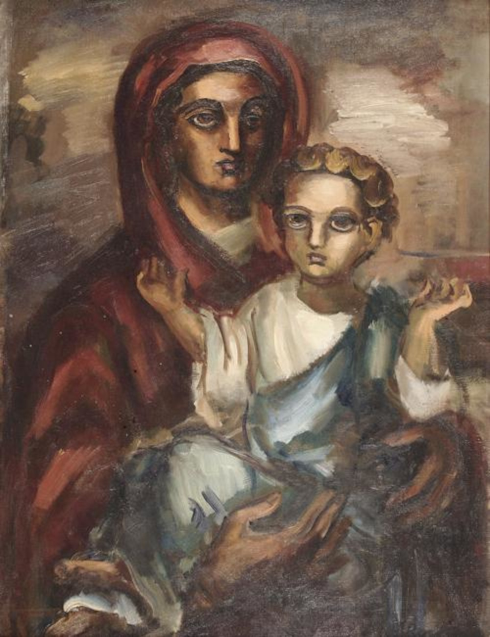 Greek artist Dimitris Vitsoris (1902-1945). Virgin Mary and Christ